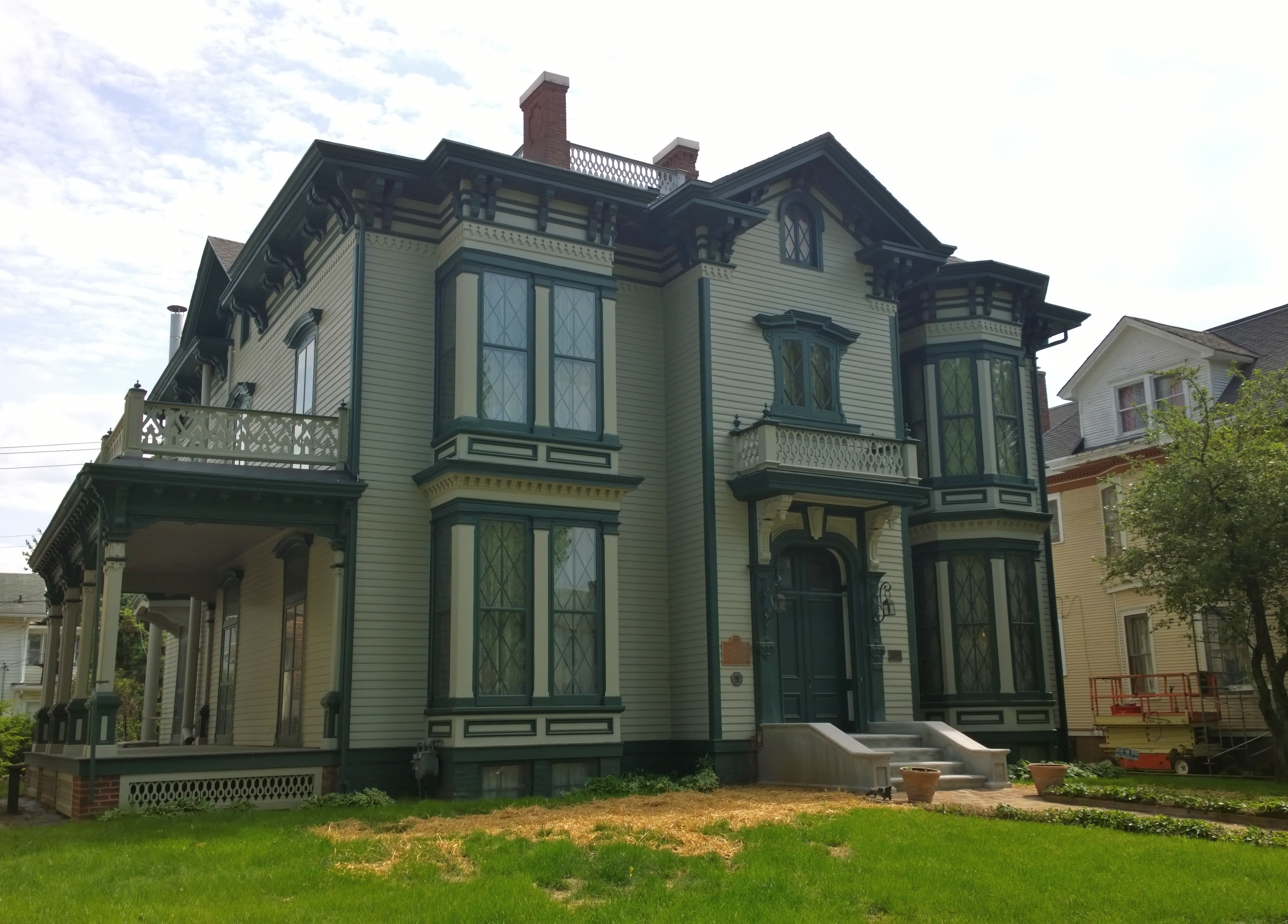 Governor Oglesby Mansion on William Street in Decatur, Illinois. Built in 1874, lived in by three-time governor of Illinois and Civil War major general Richard J. Oglesby.